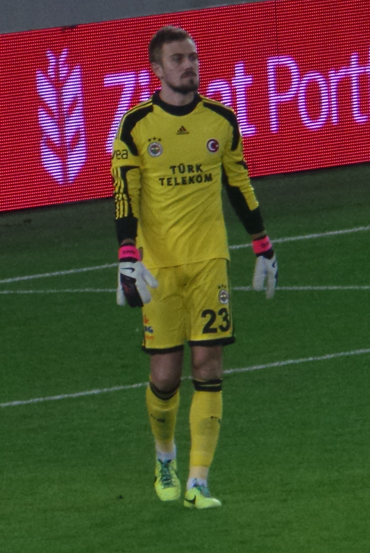 Mert @ fethiyespor match